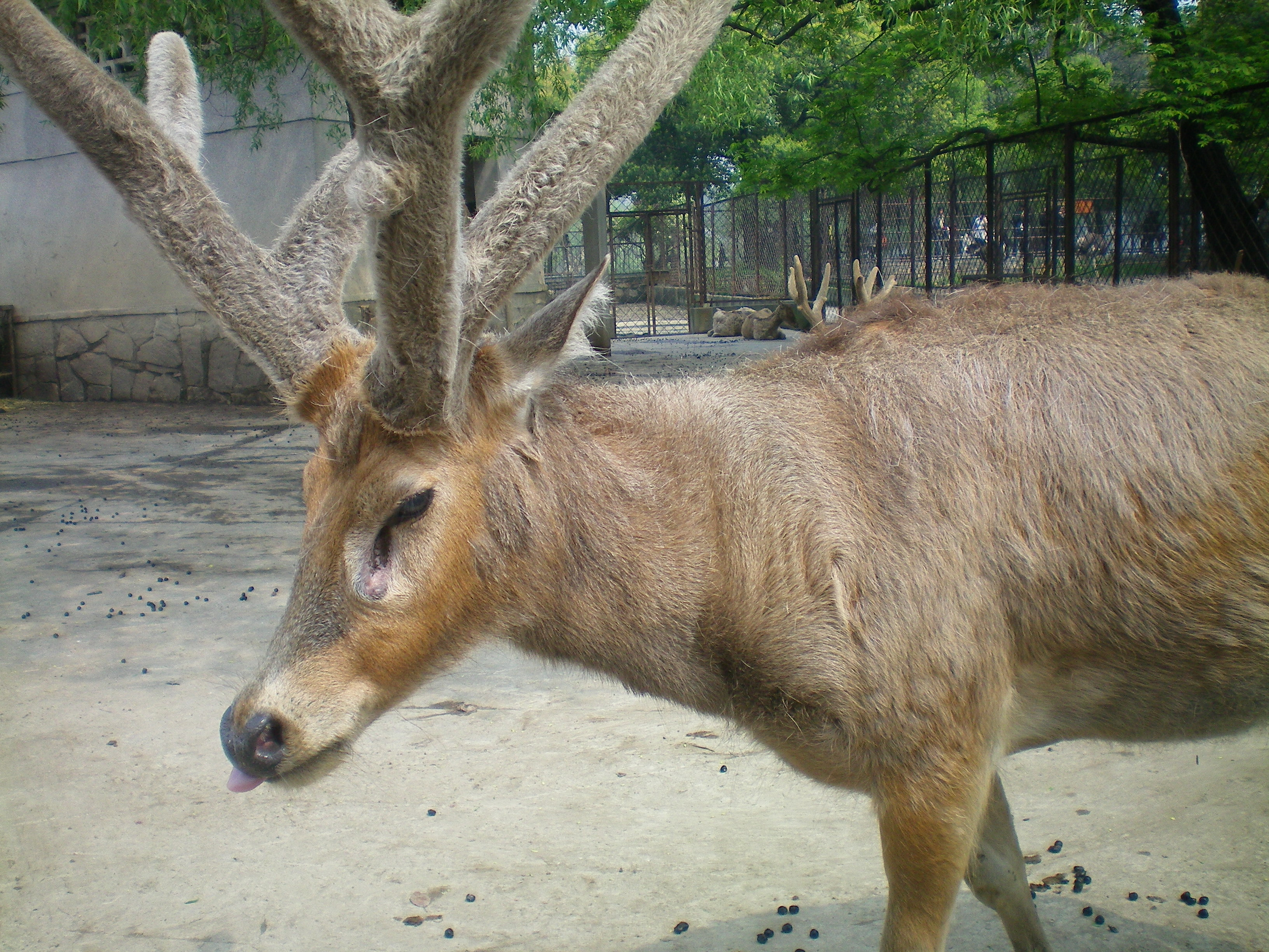 A Père David's Deer in the Wuhan Zoo.